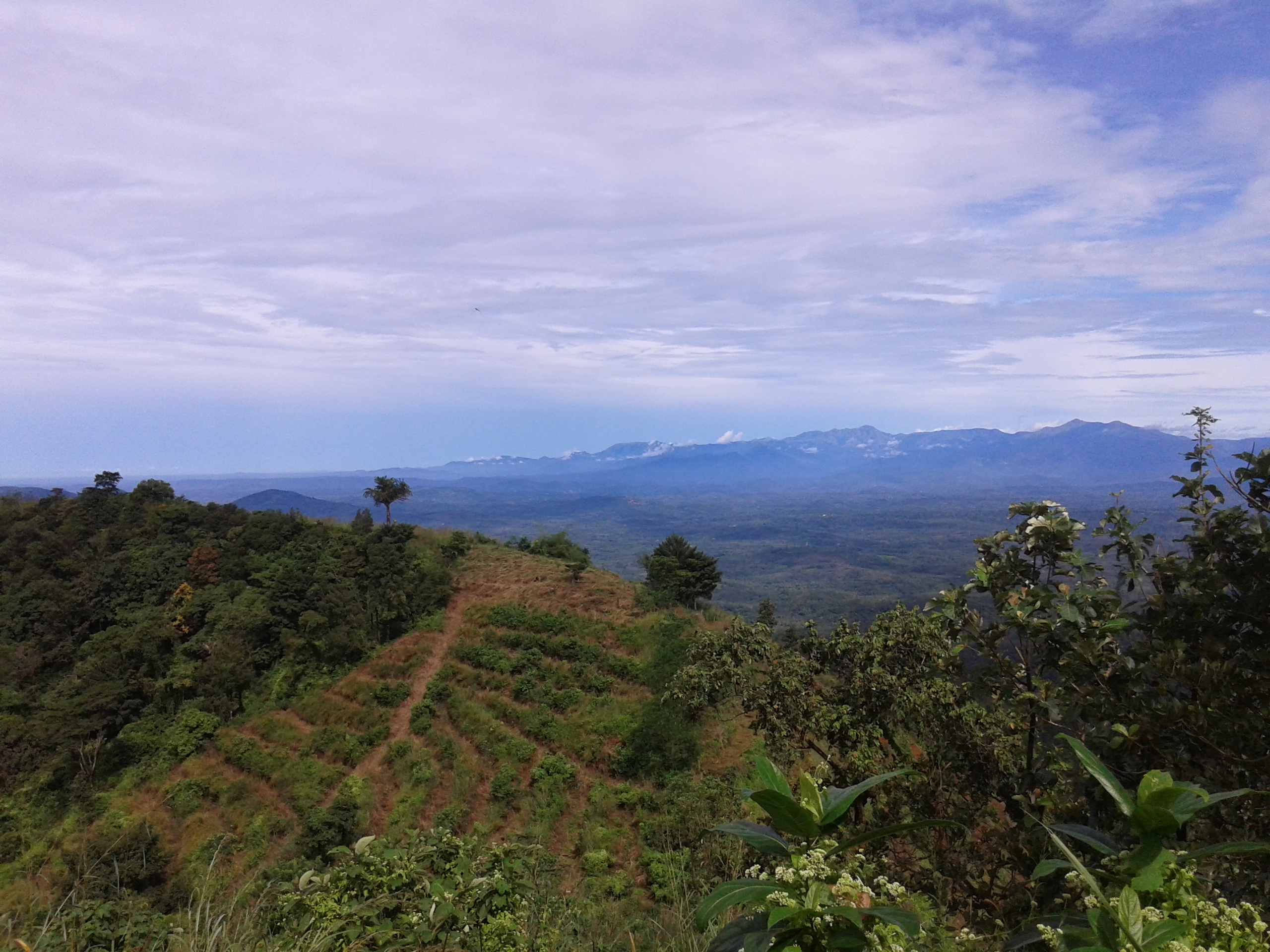 Elapeedika